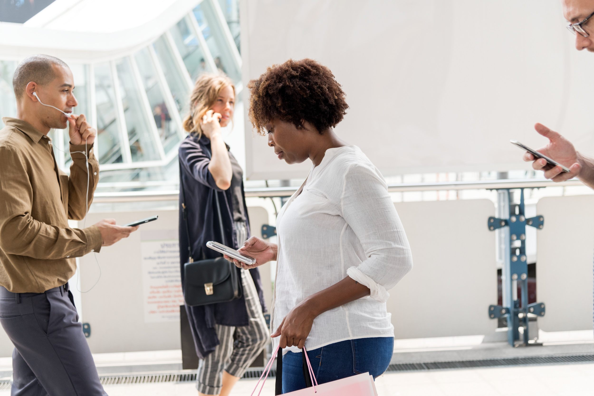 A crowd of people all using electronic devices whilst walking